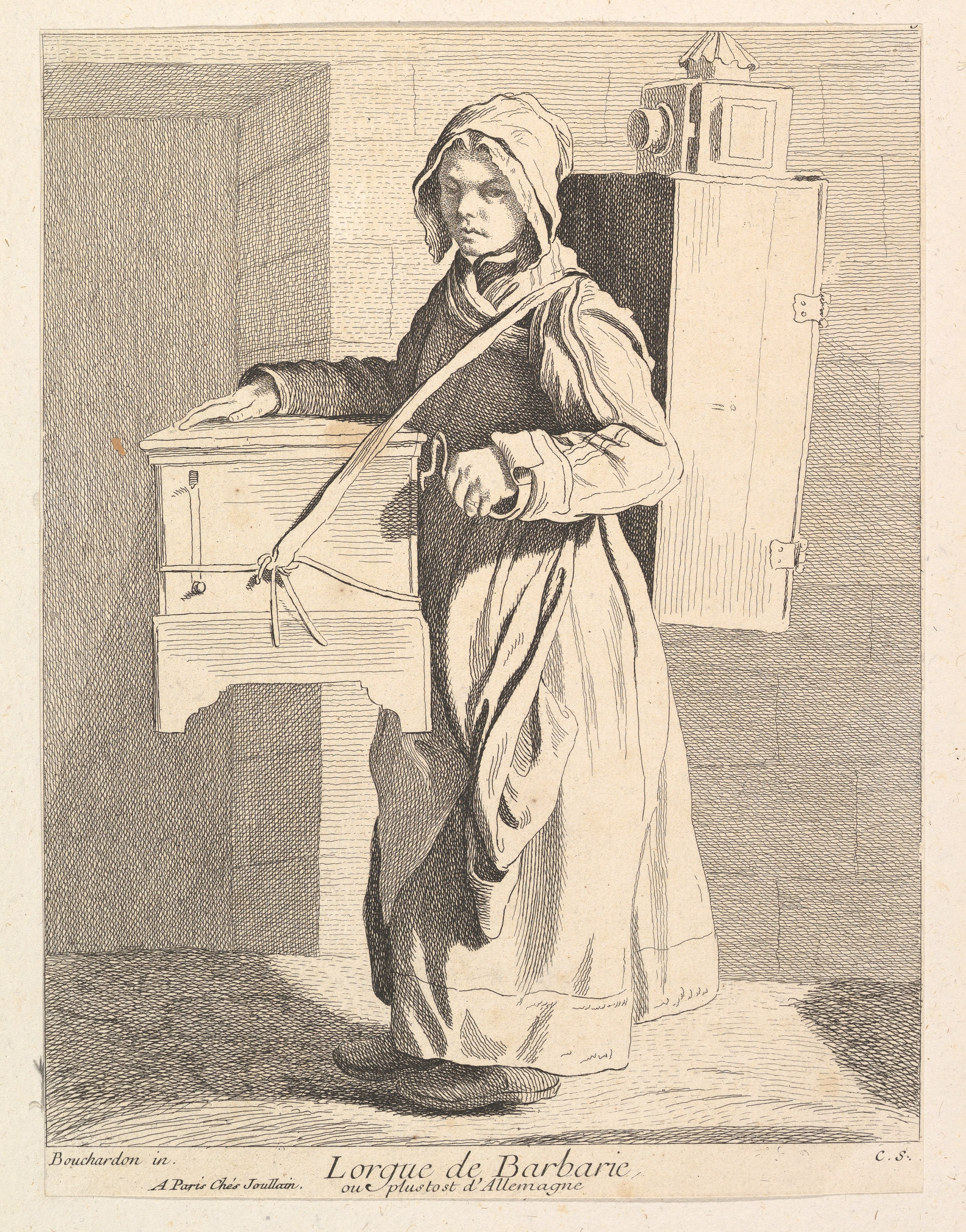 Organ Grinder. A woman standing full-length, turned to the left, and playing the barrel organ in a street; she carries a magic lantern on her back.